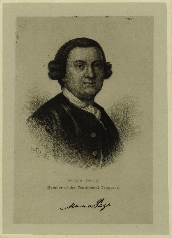 Mann Page